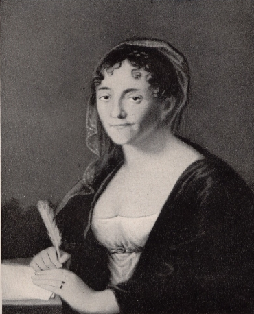 Fürstin Amalie zu Hohenlohe-Langenburg (1768-1847)